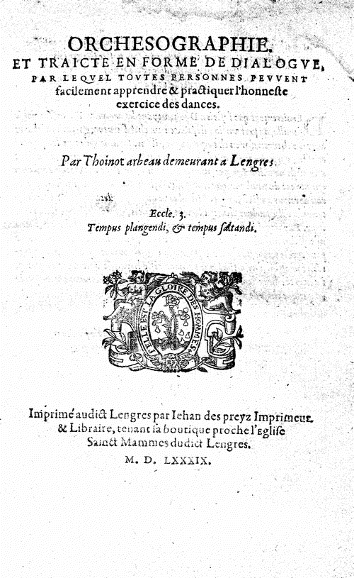 Title page